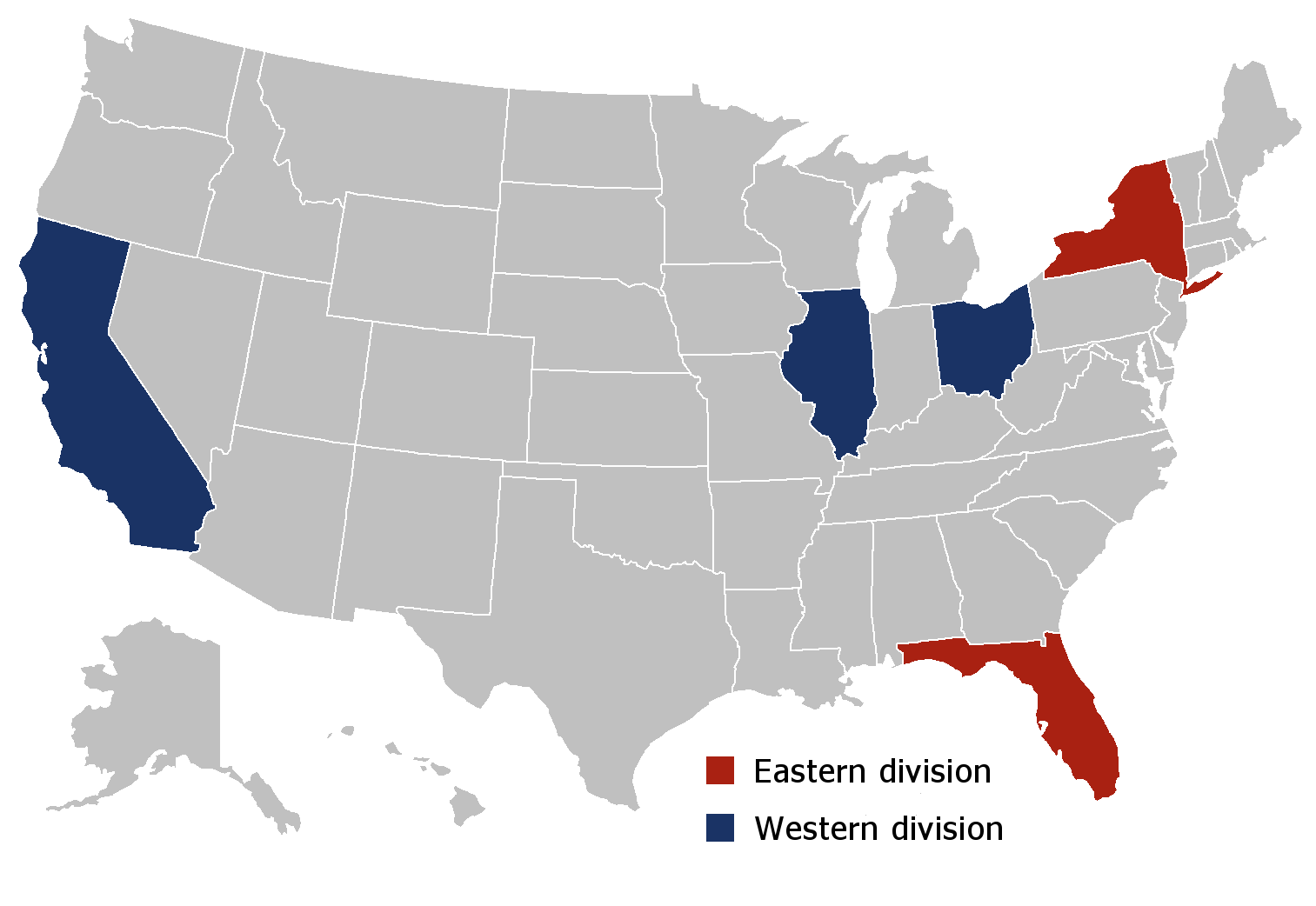 Map of states with AAFC teams (and their division) for the 1946 season